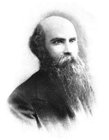 John Mullan from later in his life, after leaving the United States Army.